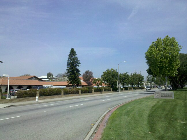 The exterior of the main sanctuary of Calvary Chapel Costa Mesa, which is actually just barely located within the city limits of neighboring Santa Ana, as indicated by its address and, less officially, this sign.